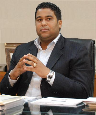 Foto de Franklin Rodriguez